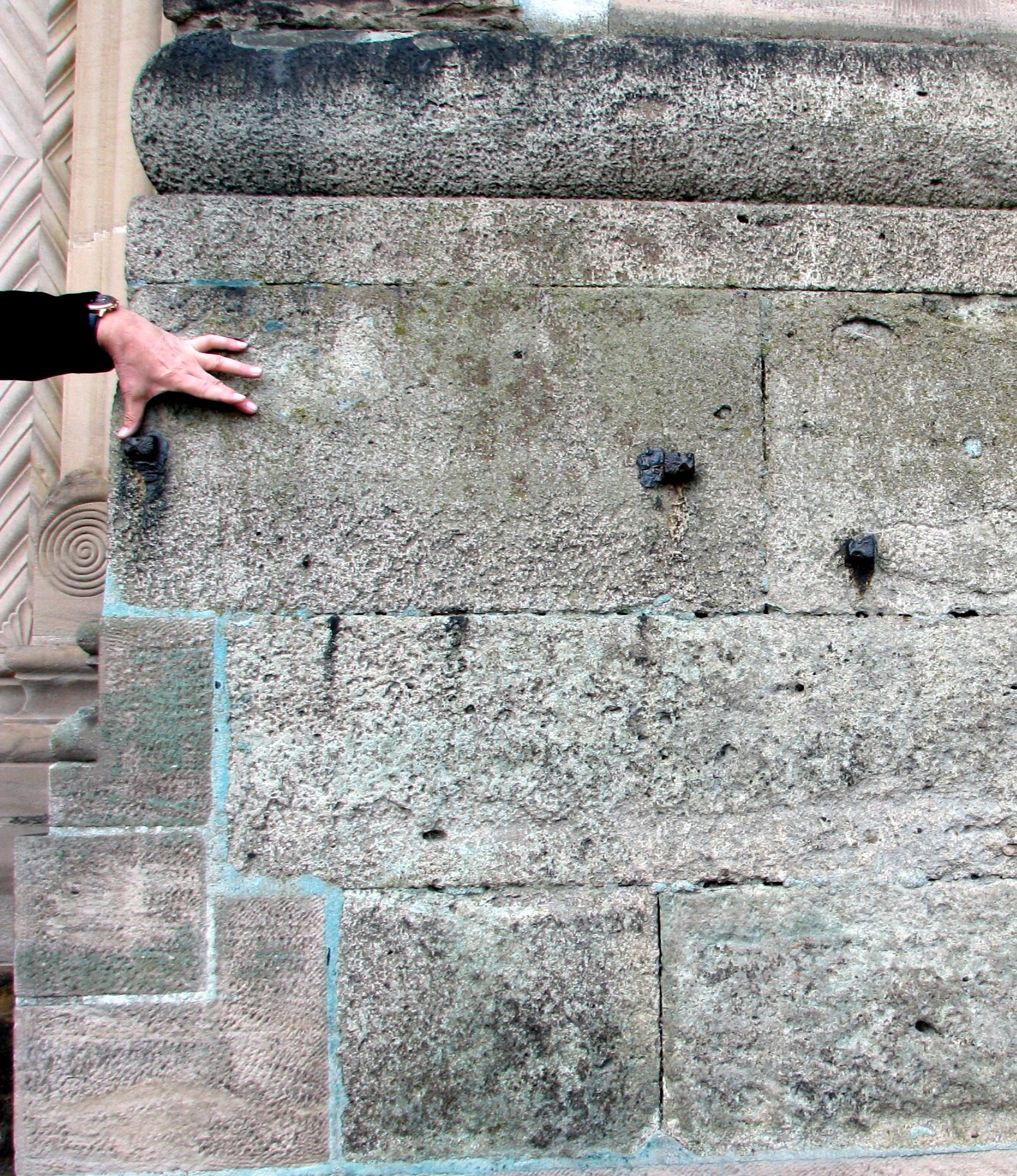 Bamberg, Cathedral, Old measures of length (ell and foot)